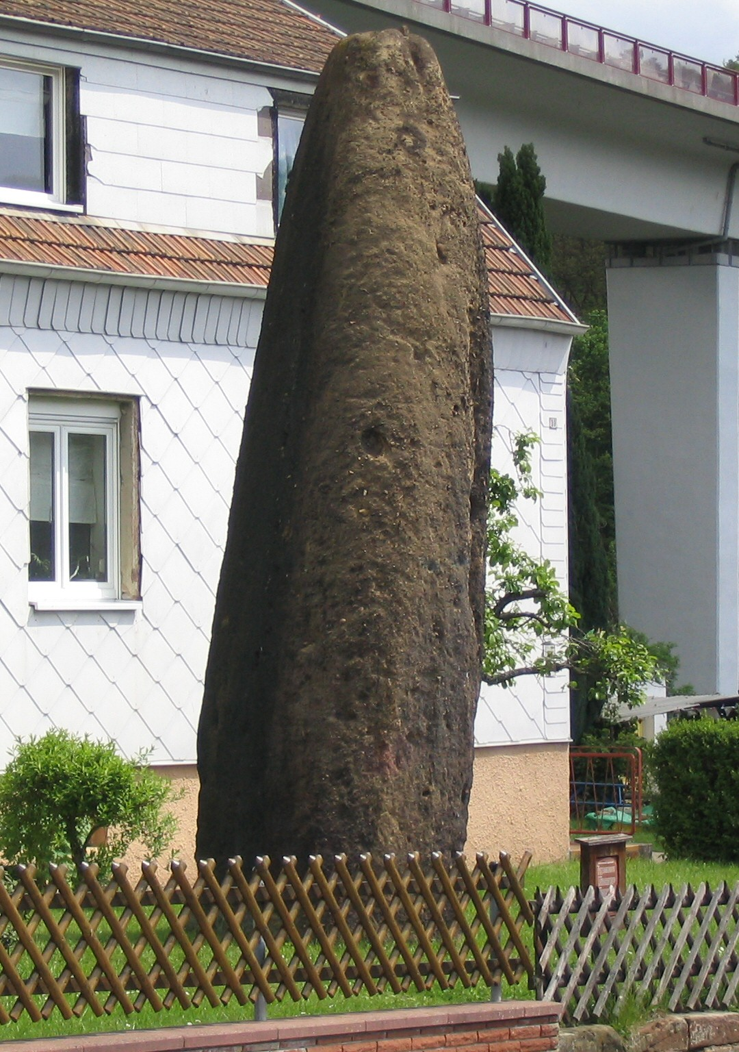 Description: Spellenstein in Rentrisch (St. Ingbert/Germany). A five meters tall menhir. Photographer: kh80 Date: 2005-05-08 License: GFDL and cc-by-sa/2.0/de